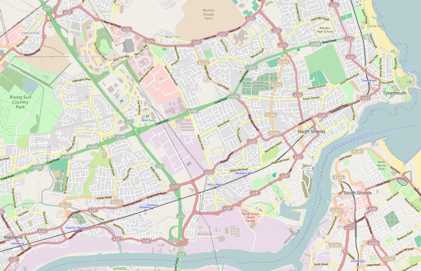 Map showing the location of the North Tyneside Steam Railway & Stephenson Railway Museum (centre map) with respect to the River Tyne and the towns of Wallsend to the west and North Shields to the east. This map may be incomplete, and may contain errors. Don't rely solely on it for navigation.